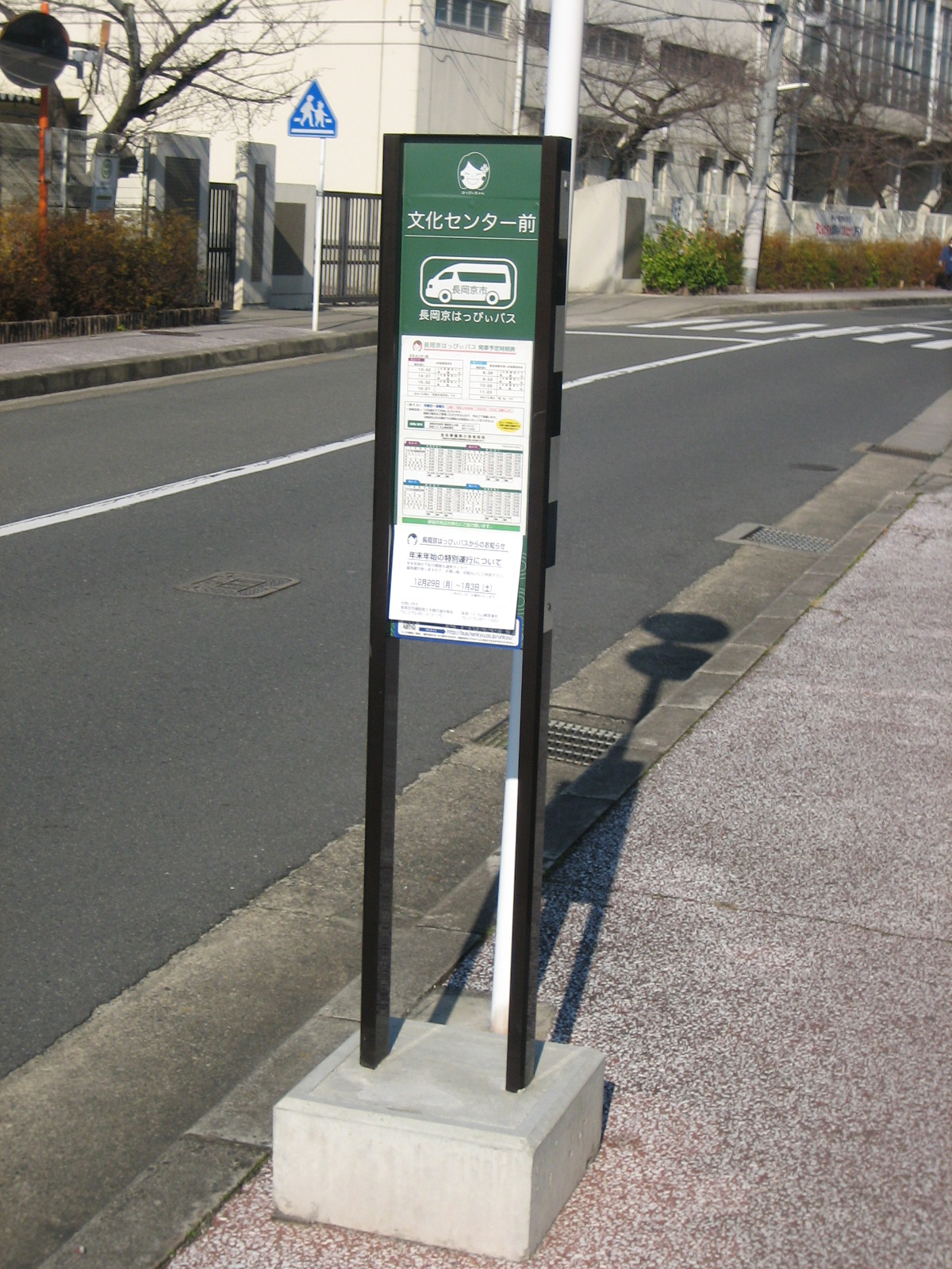 Nagaokakyo Happy Bus Bunka-centre-mae (Cultural Centre) Bus Stop